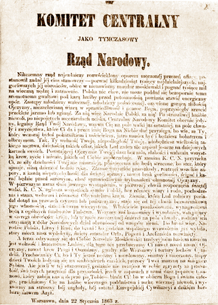 Proclamation of the January Uprising 1863